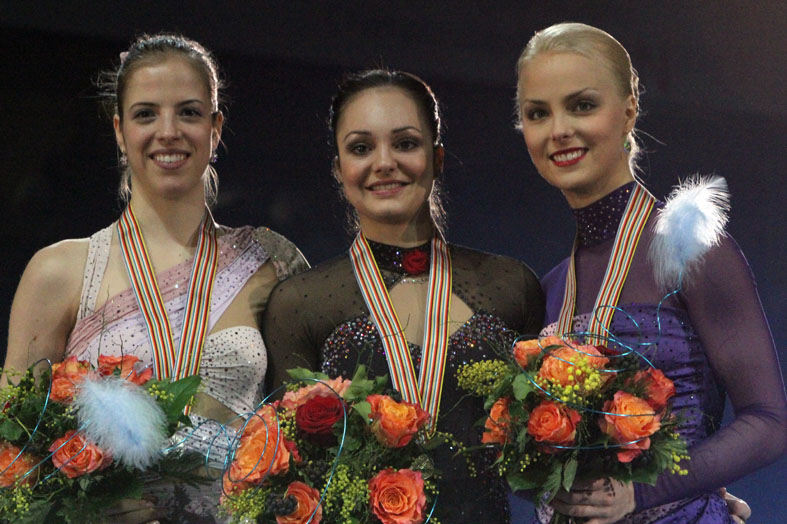 The ladies podium at the at the 2011 European Figure Skating Championships. From left: Carolina Kostner (2), Sarah Meier (1) and Kiira Korpi (3)